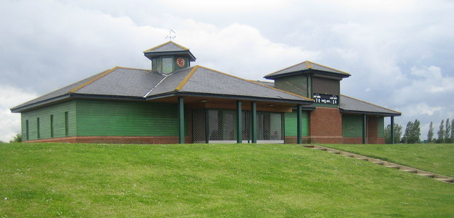 Southend: Garon Park cricket pavilion Garon Park is now the venue for Southend's annual Cricket Festival having moved in 2005 from Southchurch Park, its home since 1906. One of Essex's County Championship fixtures, against Gloucestershire, is scheduled to be played at Garon Park between 8 and 11 August 2007.